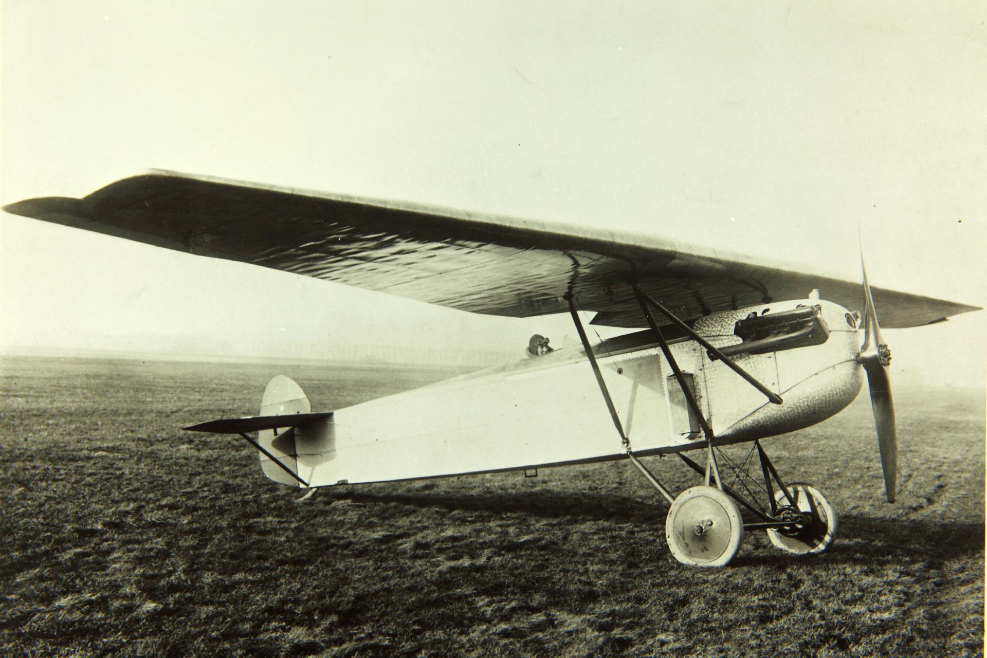 Fokker D.X